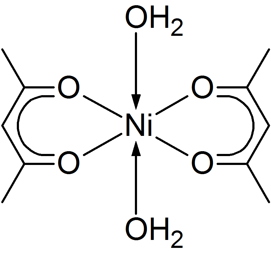 This is a structure of the molecular compound Ni(acac)2(H2O)2